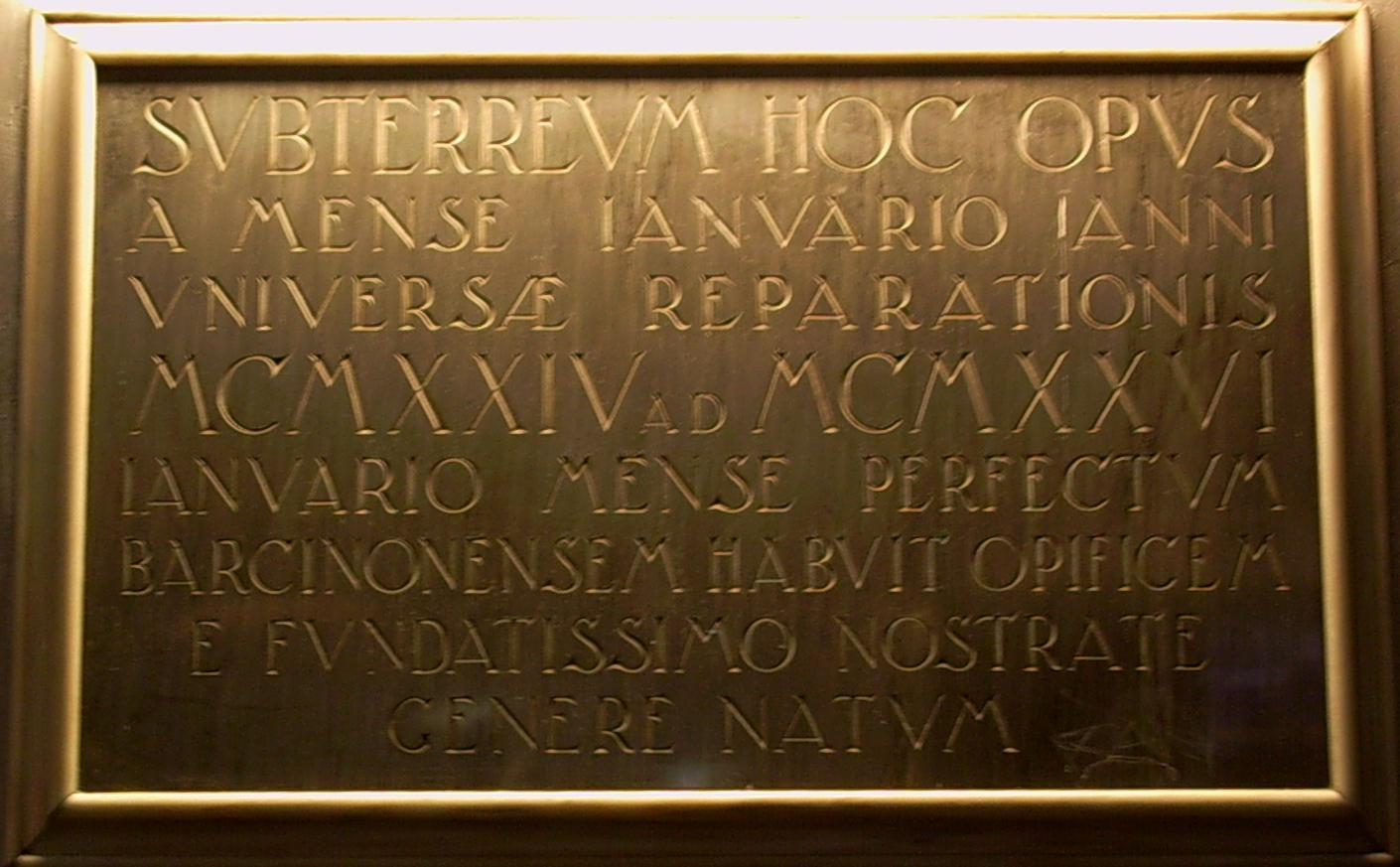 Metro of Barcelona Plaça Espanya 's construction plate